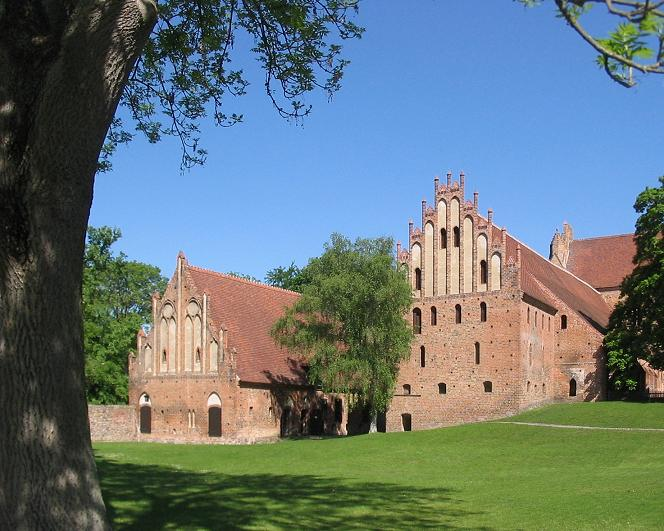 Cistercian Monastery Chorin, founded in 13th century by the together governing Ascanian Margraves of Brandenburg John I (1213–1266) and Otto III (ca. 1215–1267). Chorin is a municipality in the District Barnim, state Brandenburg, Germany.